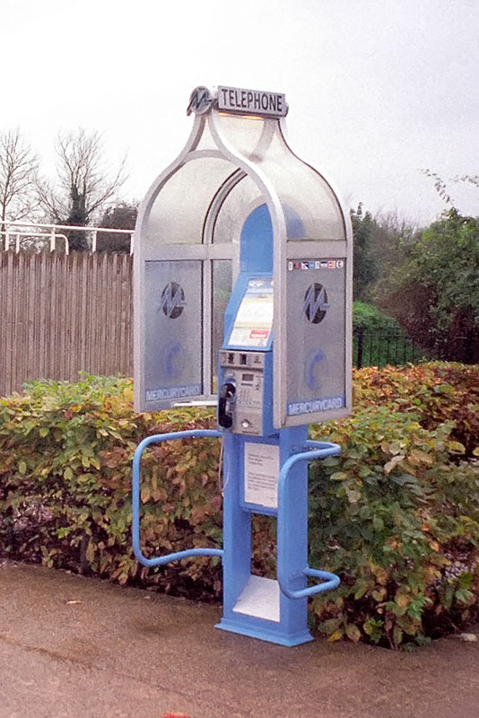 The final version of the 'Machin' Mercury payphone booth - with additional roof signs, tubular walk-under guard rails and privacy glazing.